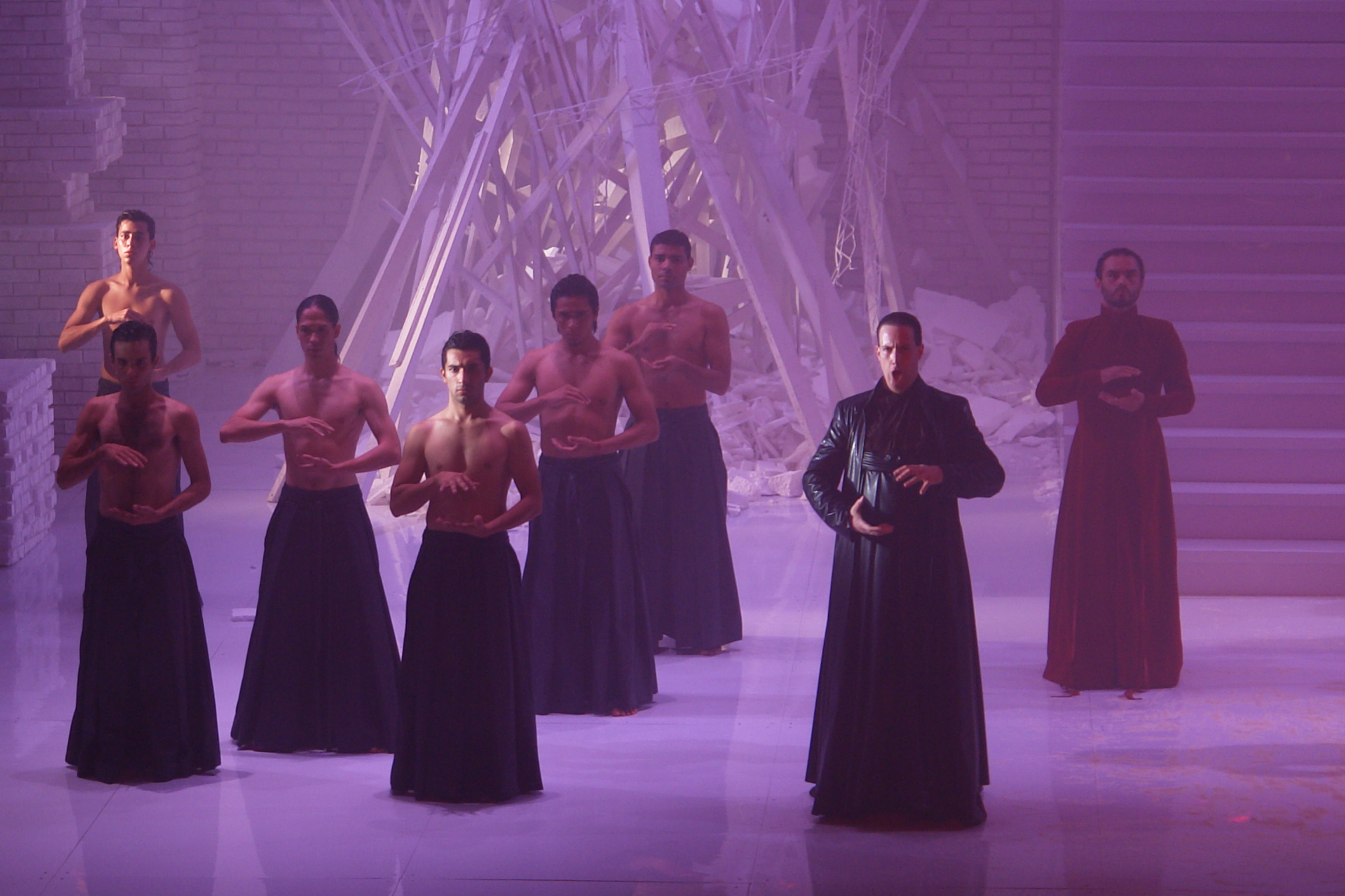 Vesselin Stoykov as Mephistophele